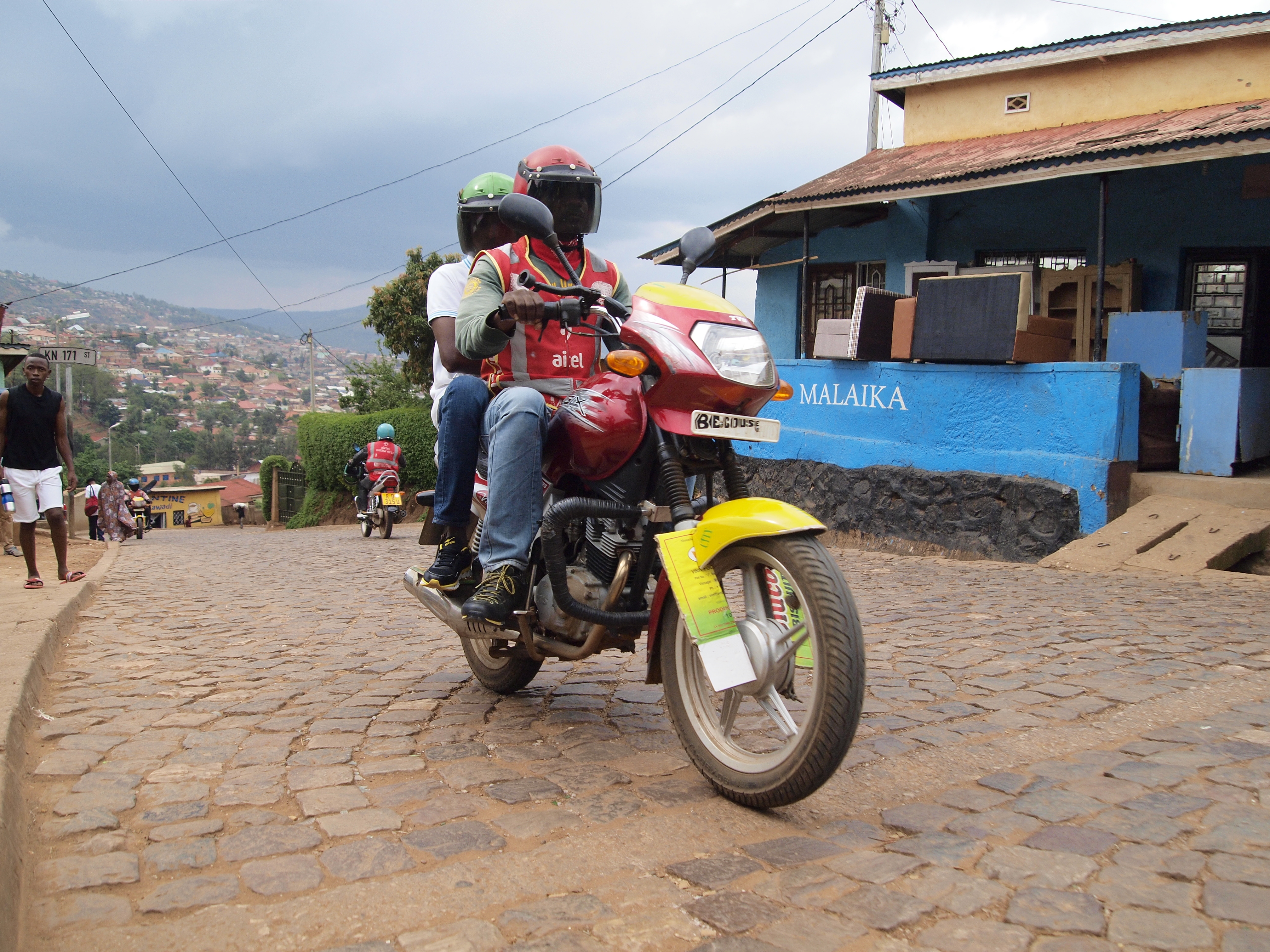 A motorcycle taxi (called Boda-boda) in Kigali, Rwanda.